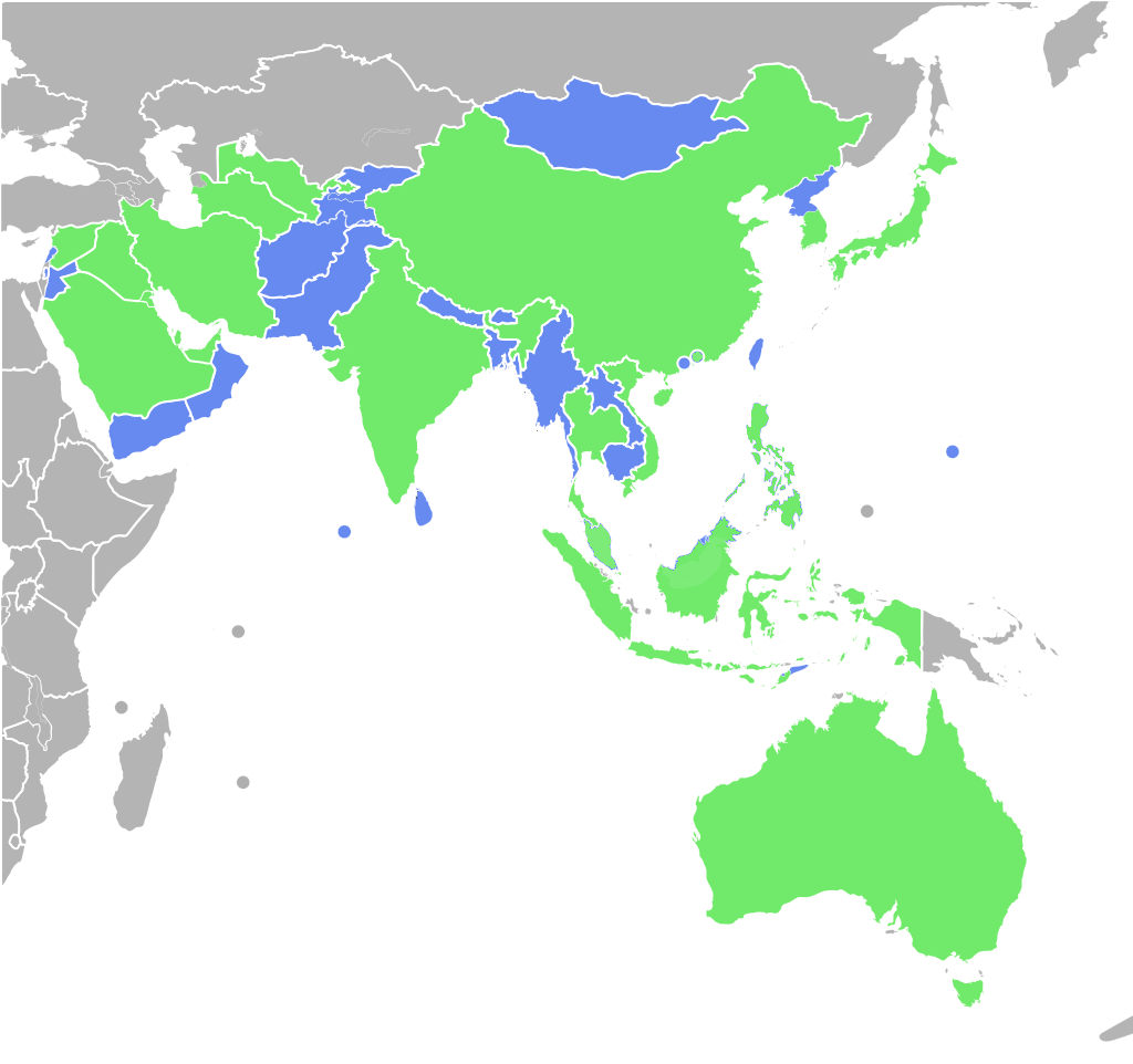 Map of AFC countries whose teams have participated the AFC Champions League.